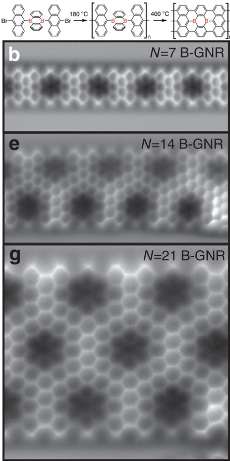 STM images of boron-doped graphene nanoribons of different width and the chemical reaction used for their production